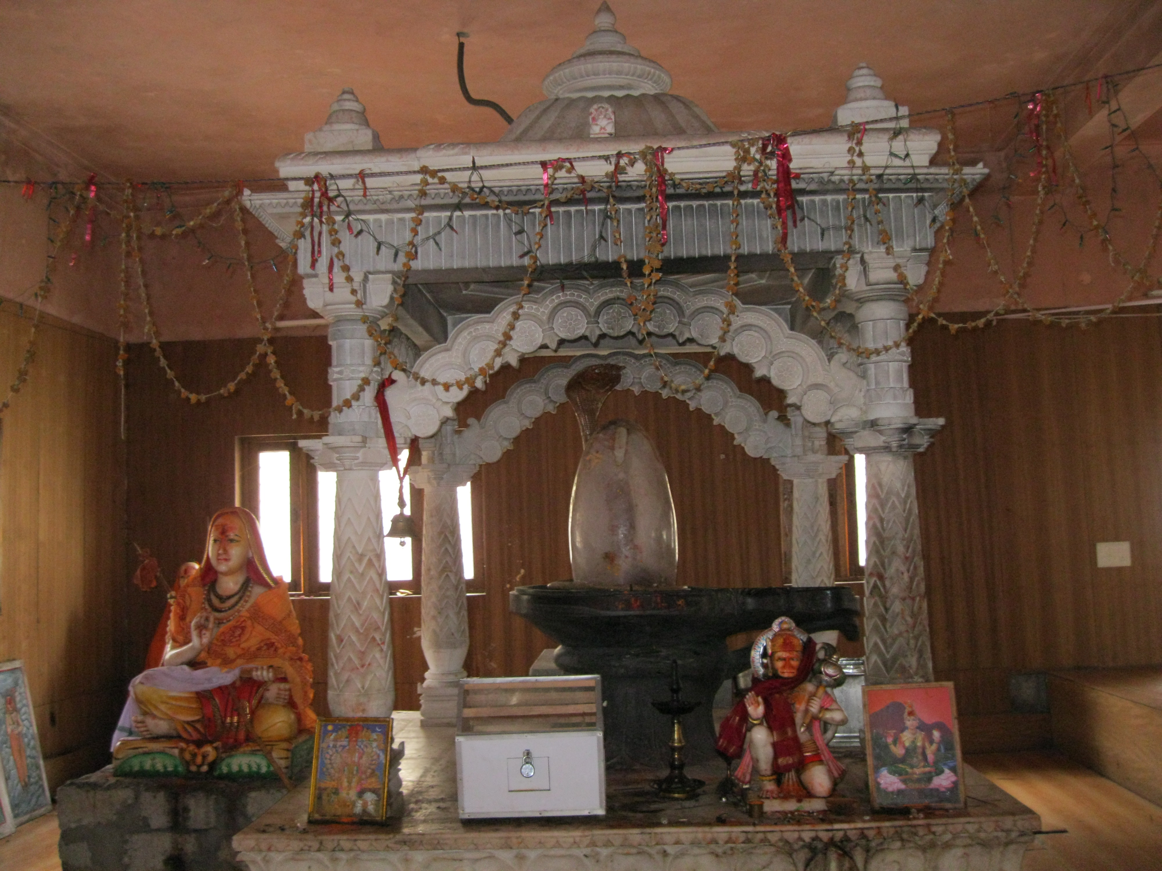 sankaracharya samathi at ketharnath